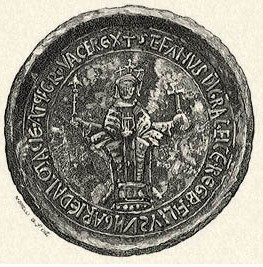 Stephen III of Hungary